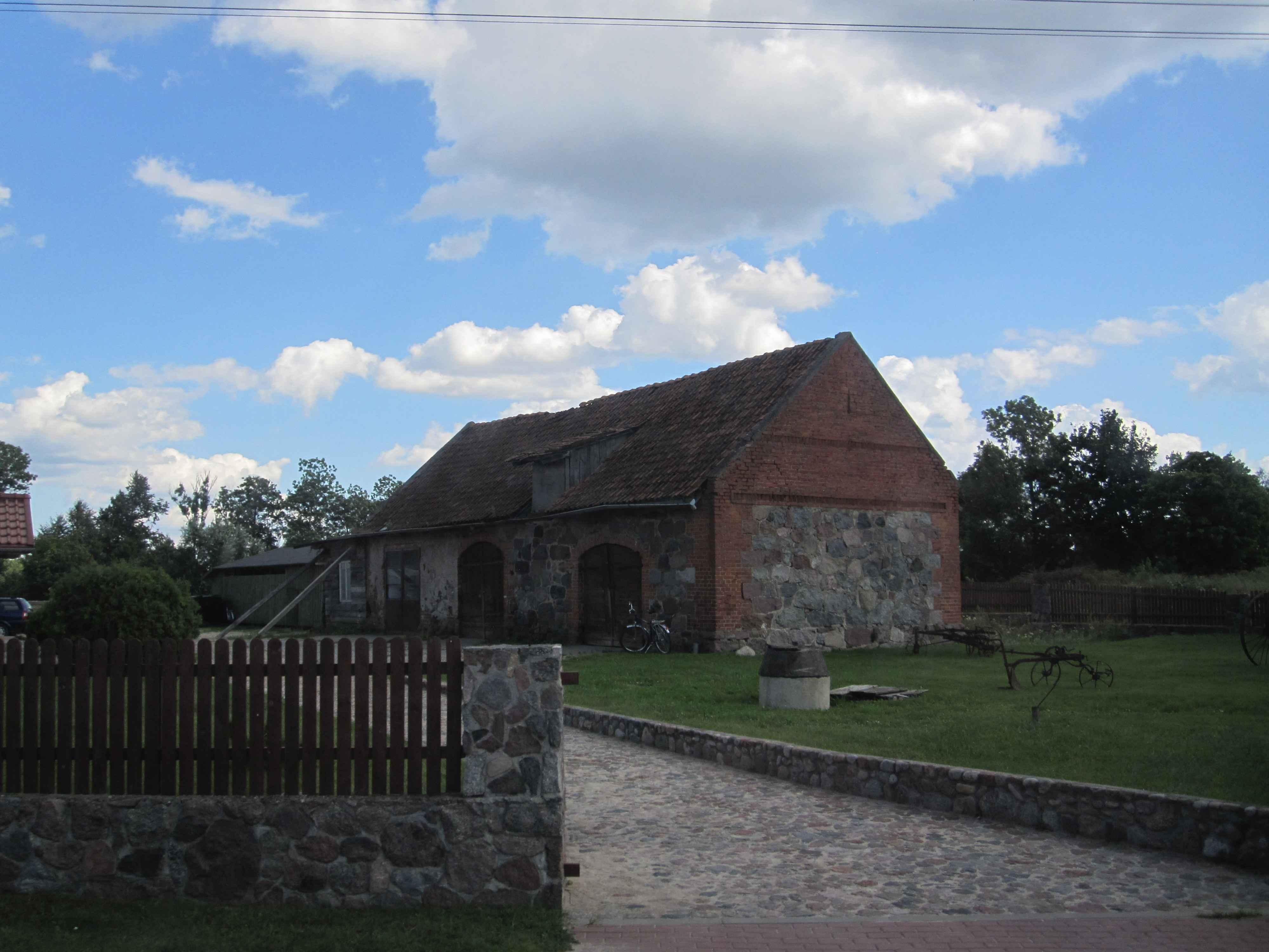 Zełwągi - stone and brick building